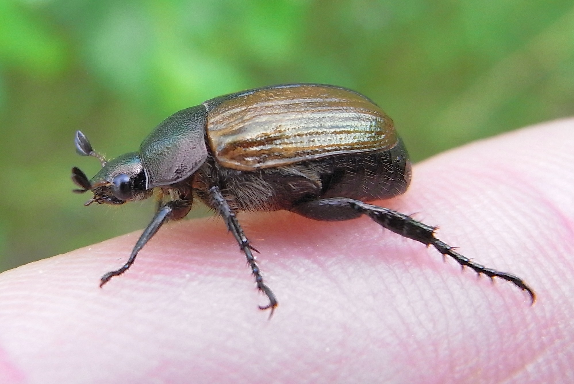 Anomala dubia from HungaryRicoh R8